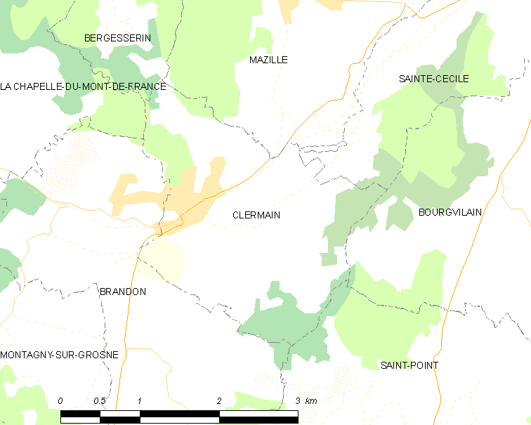 Map of French municipality